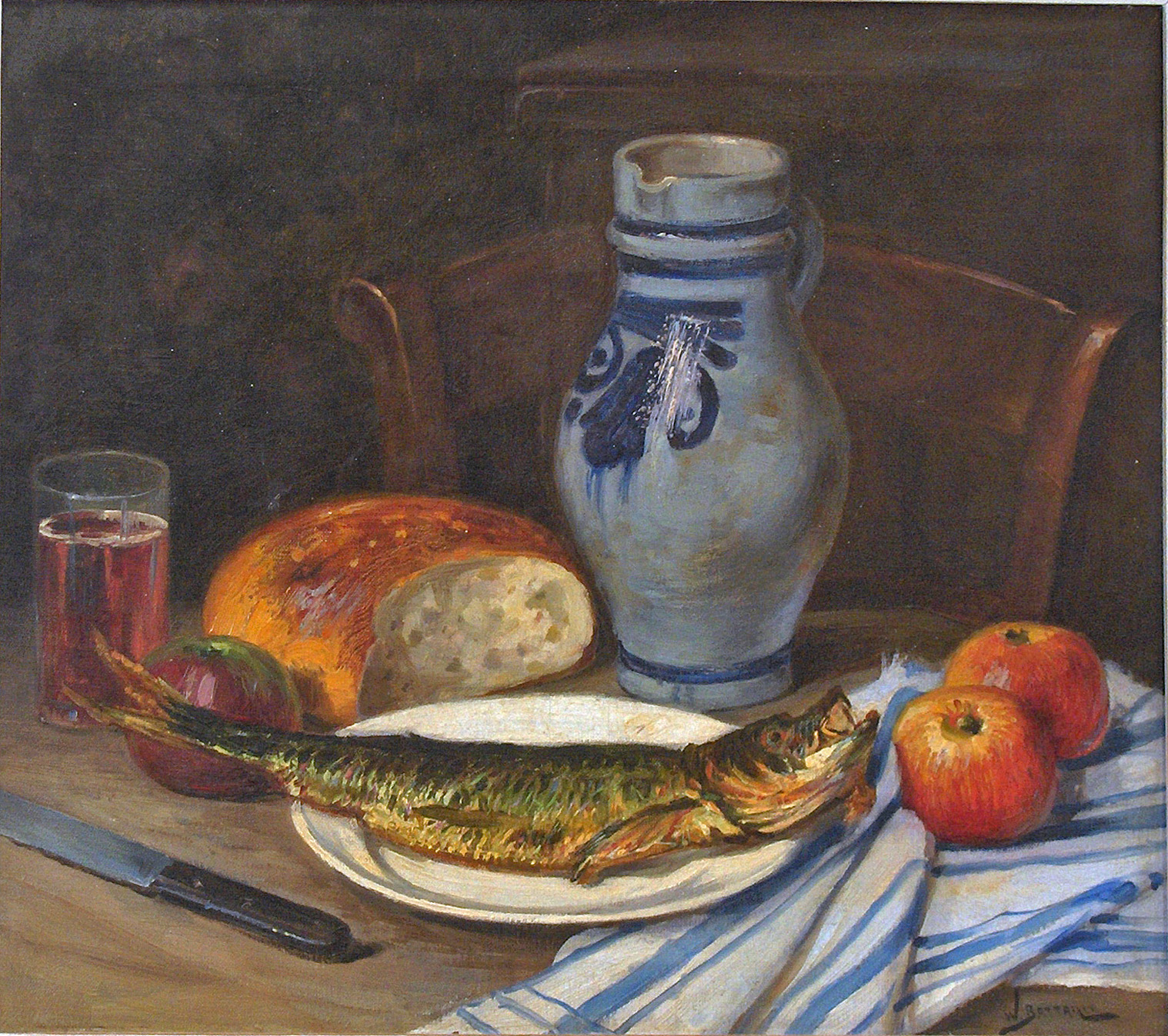 "Nature morte" , oil painting on canvas (50 x 60 cm) by Willem Battaille (1867-1933); private collection